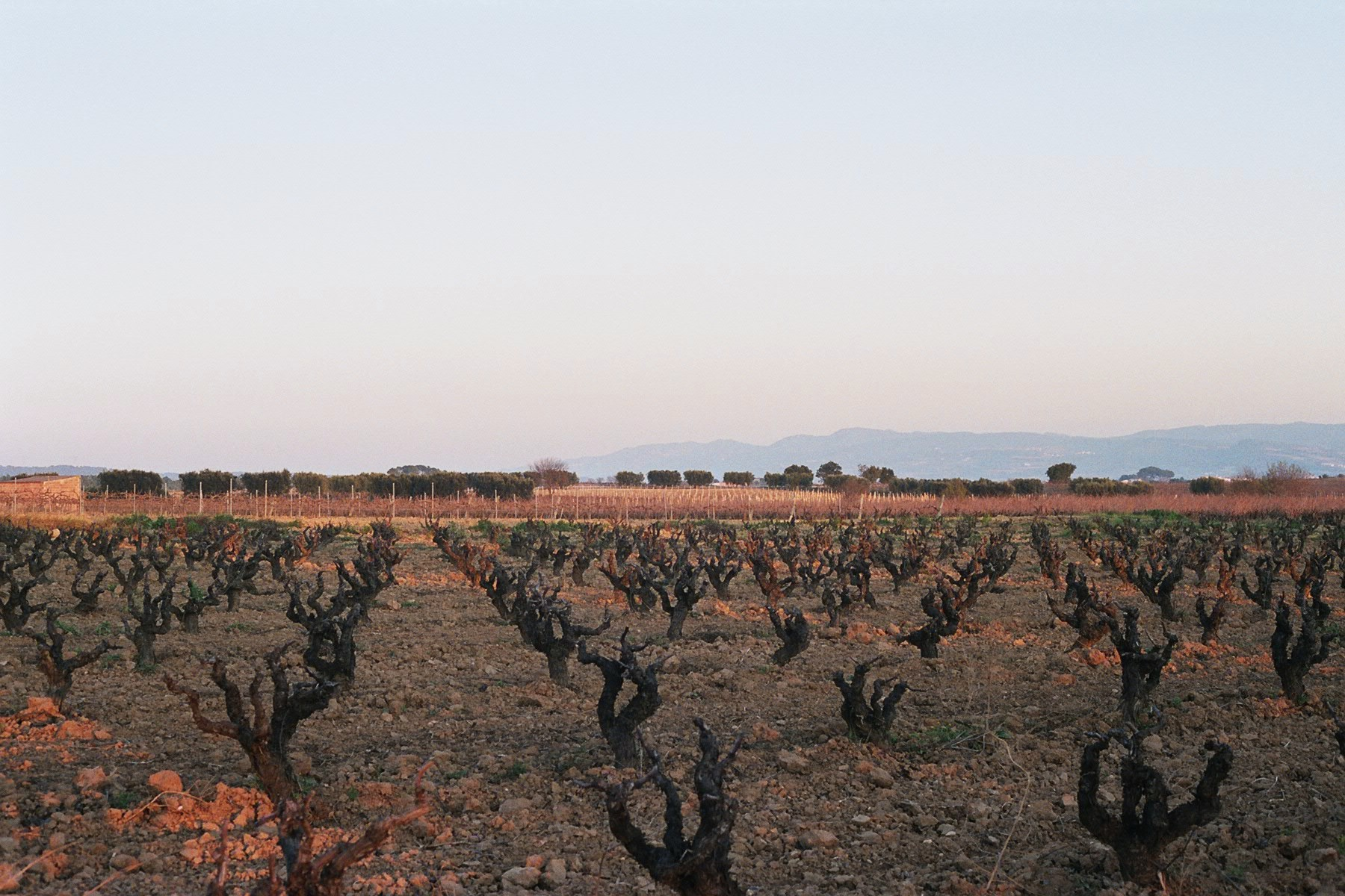 The Penedès region of Catalonia and its vineyards at sunset.